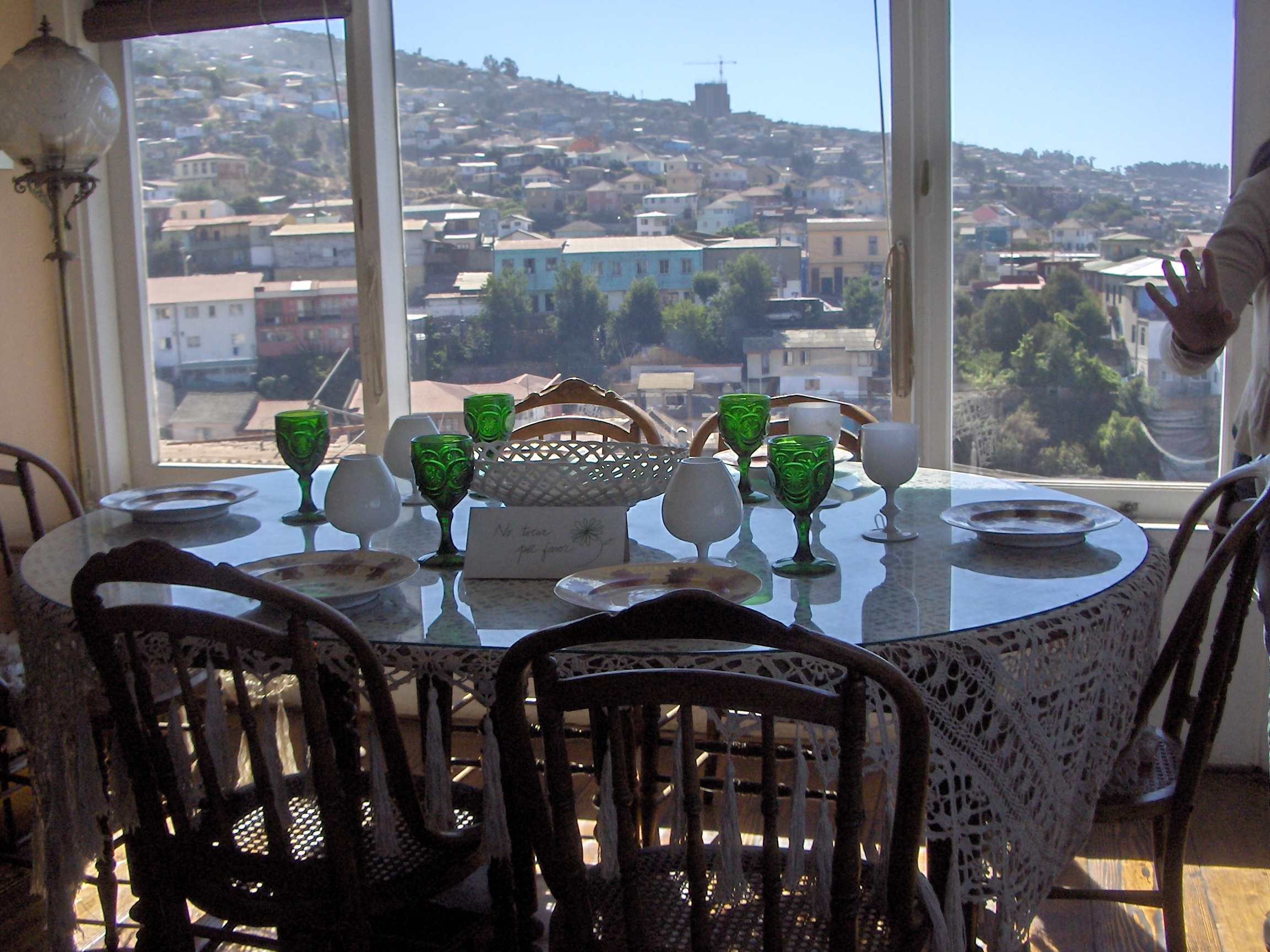 Dinner table at "La Sebastiana", home of Pablo Neruda in Valparaíso